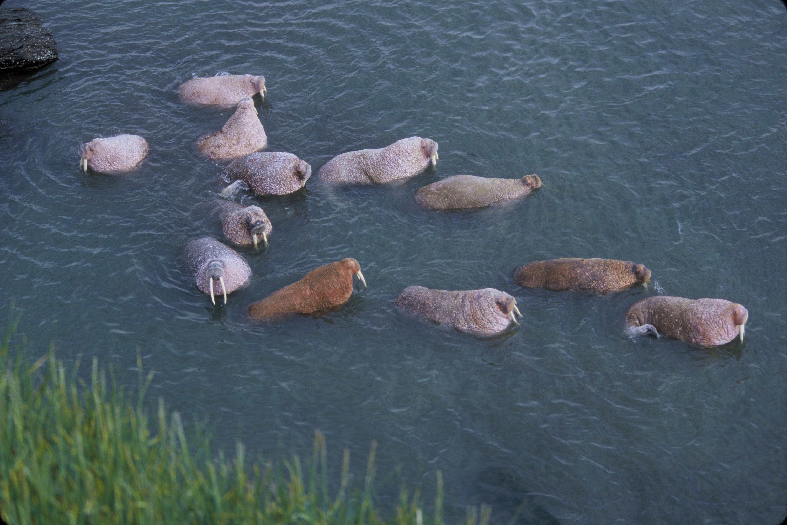 Walrus on Togiak National Wildlife